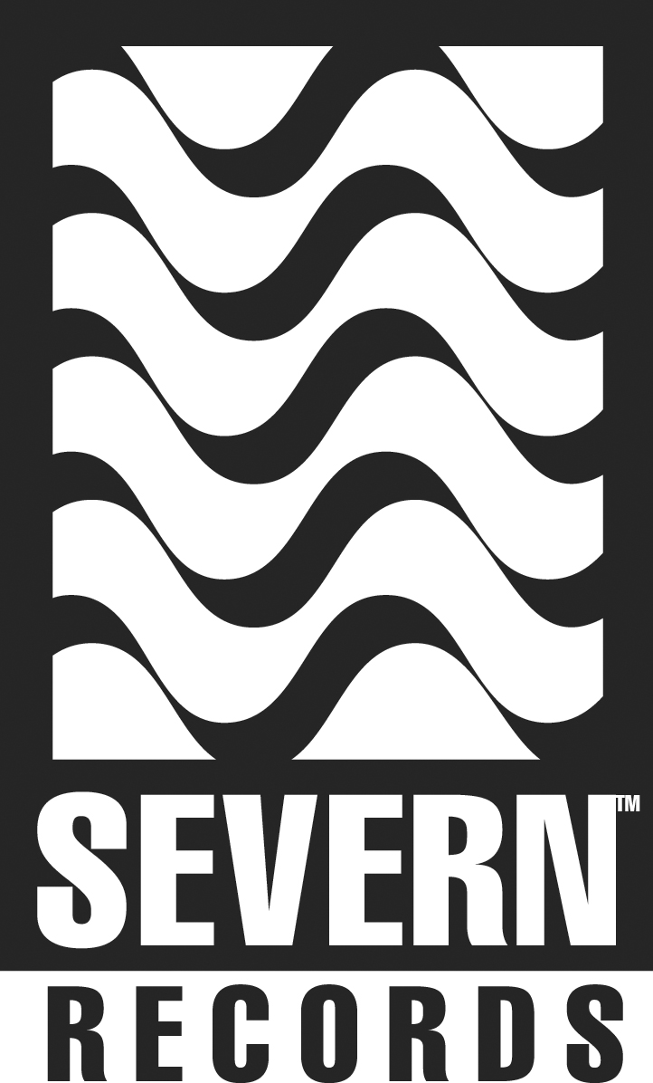 Severn Records Logo